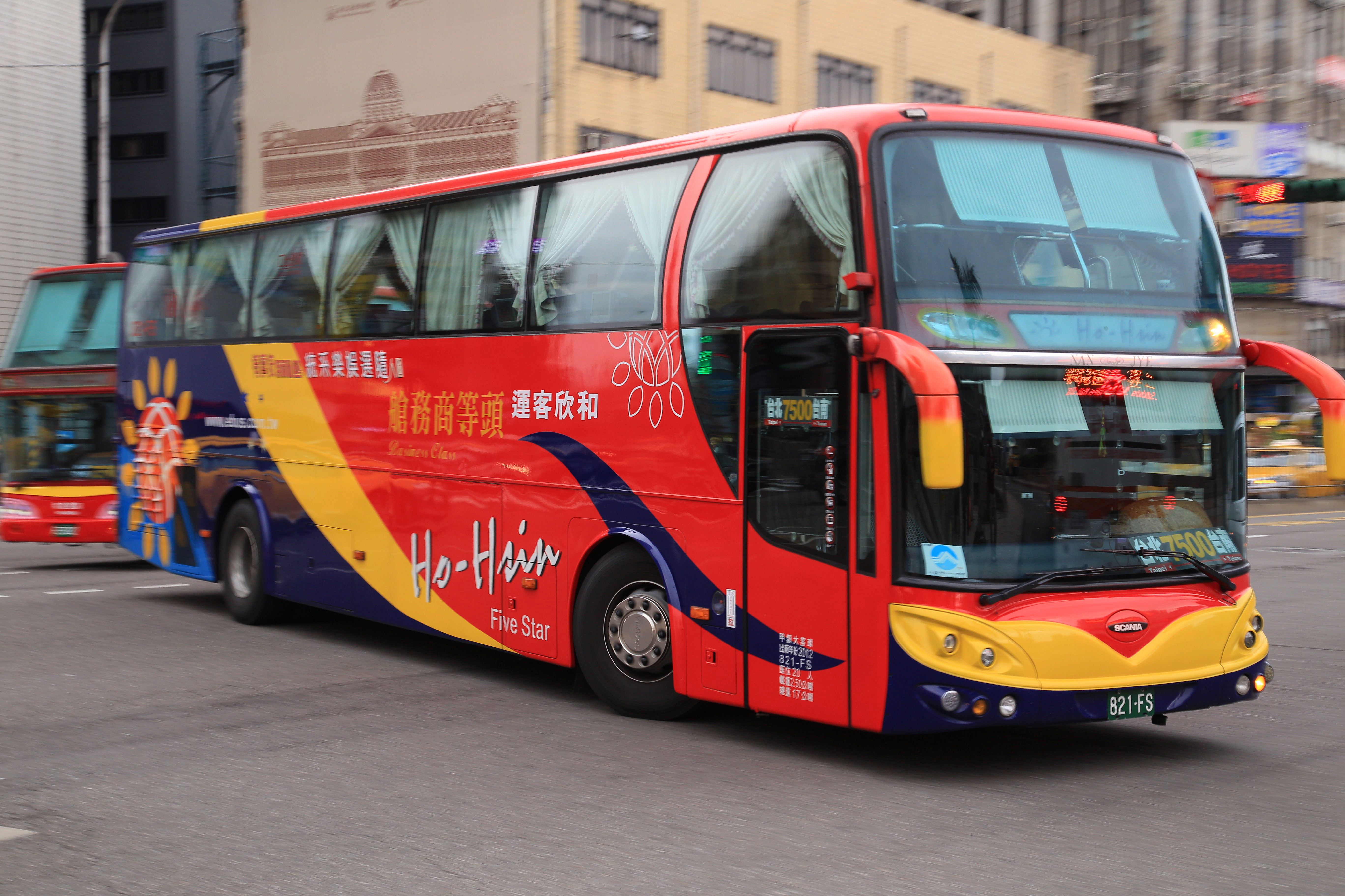 HoHsinBus SCANIA K380IB4X2NB 821-FS